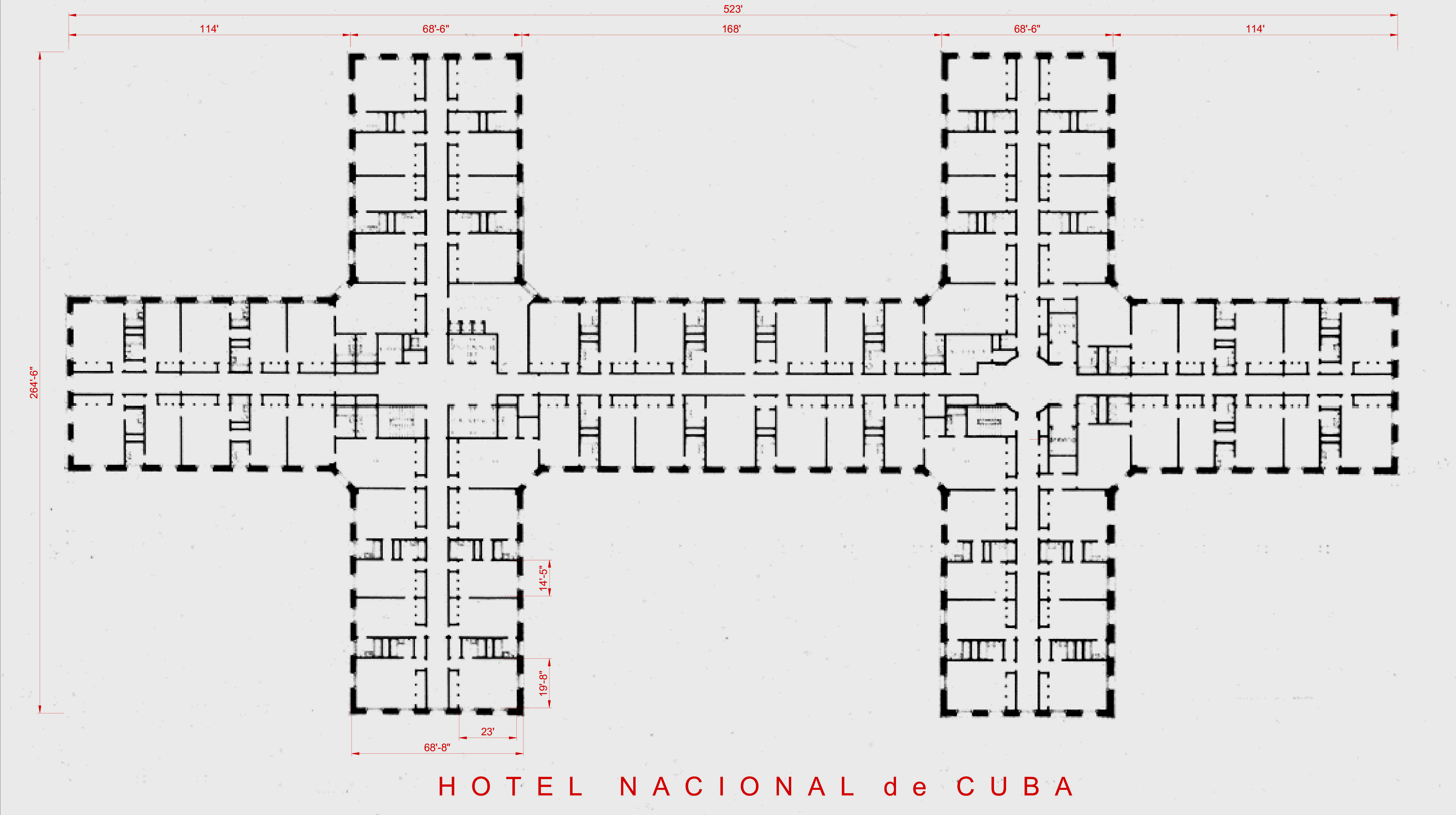 Hotel Nacional de Cuba_Floor Plan_Measure